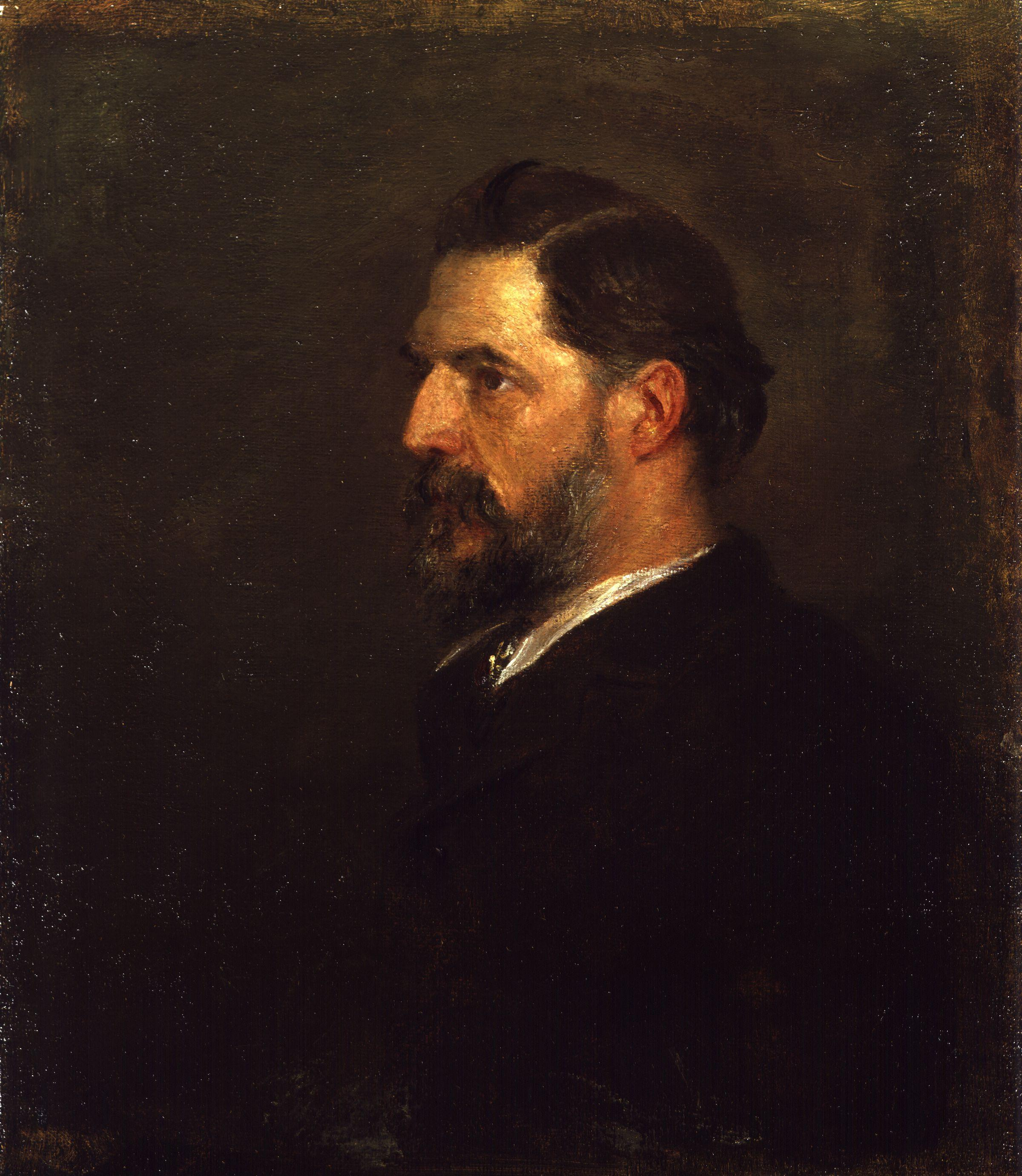 Sir (William Matthew) Flinders Petrie, by George Frederic Watts (died 1904), given to the National Portrait Gallery, London in 1955. All images in this batch have been confirmed as author died before 1939 according to the official death date listed by the NPG.